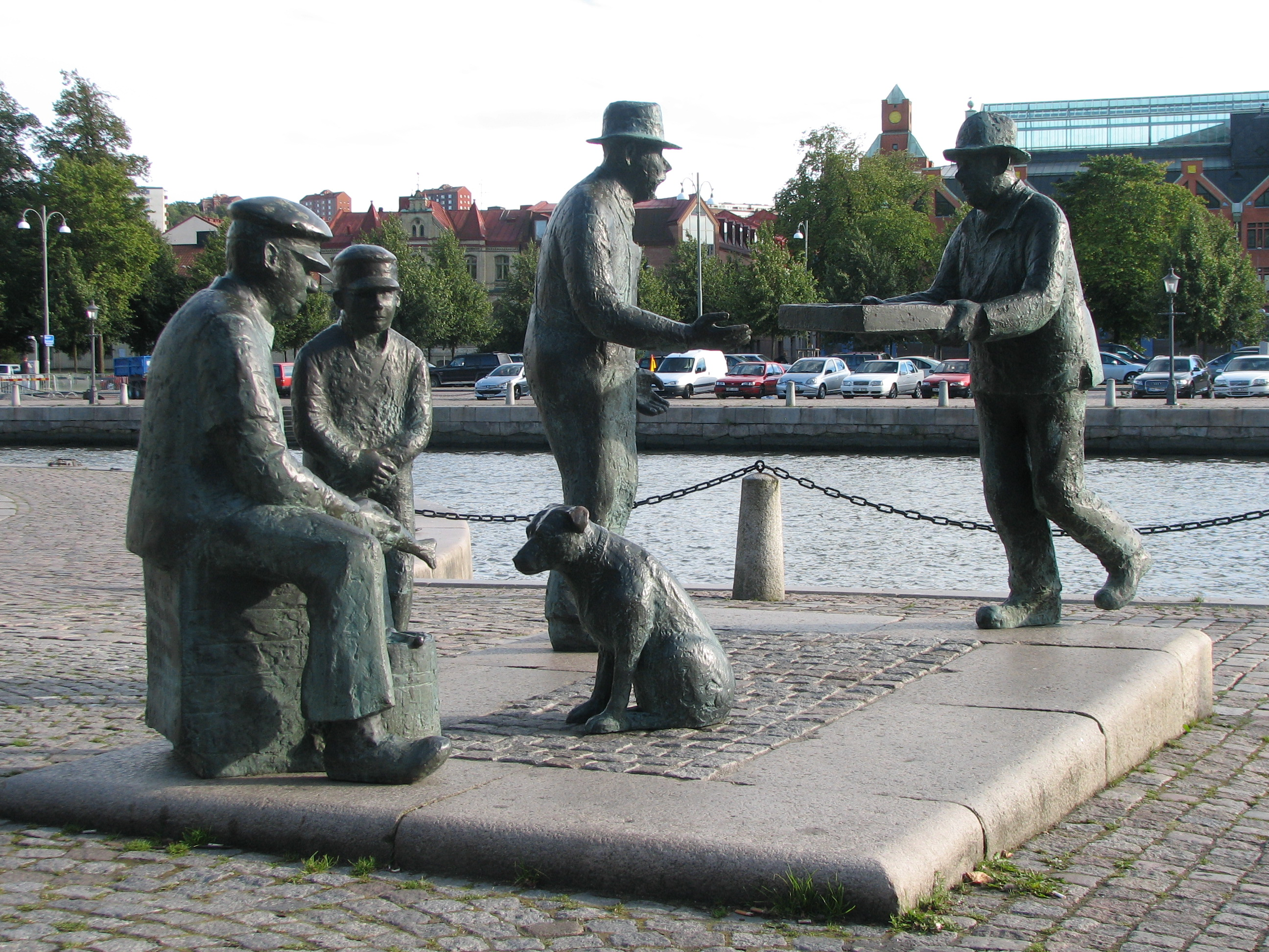 The sculpture group Skärgårdsfiskare (archipelago fishers) at "Feskekörka" in the center of Göteborg, Sweden. View direction SSE.